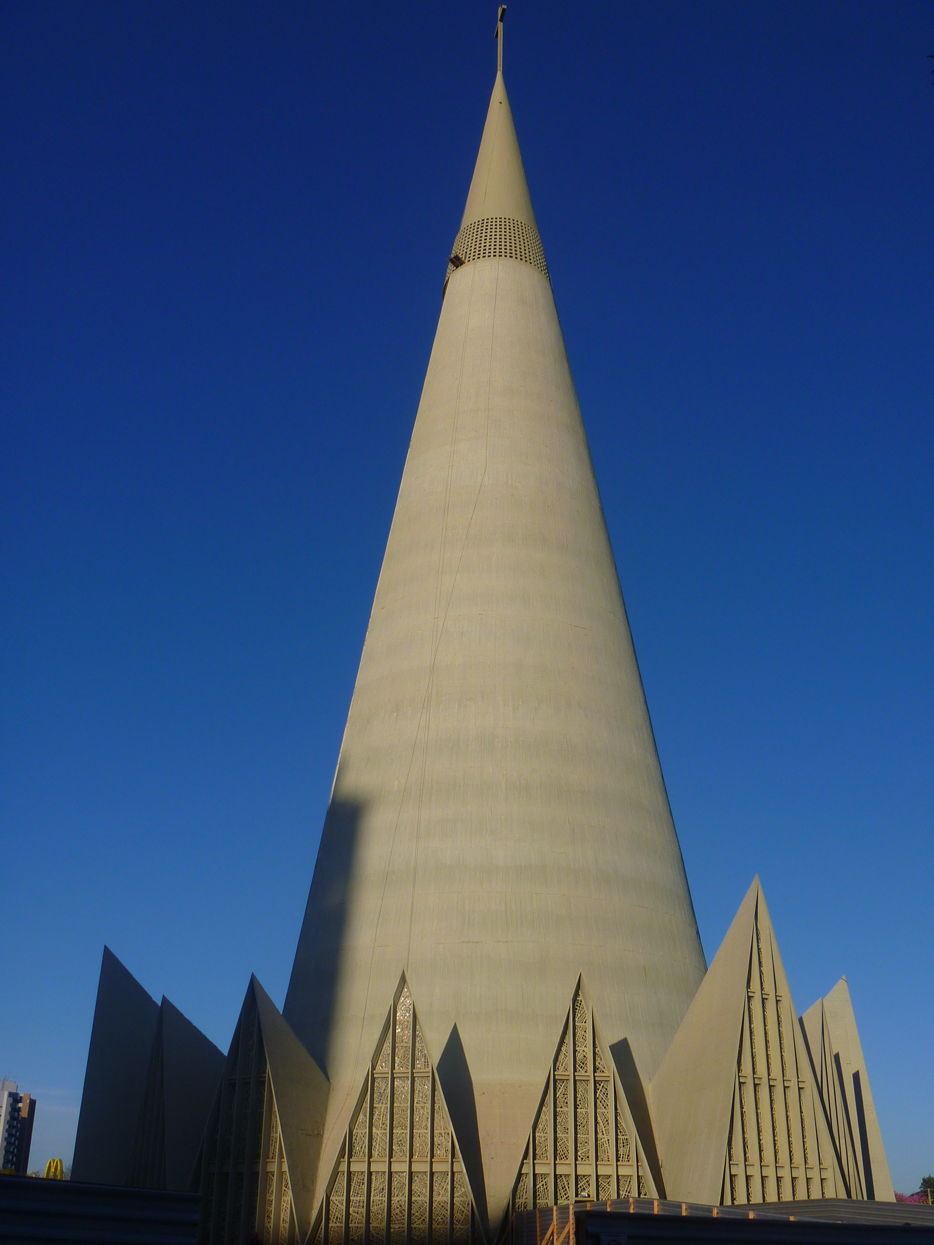 Cathedral in Maringa, Brazil